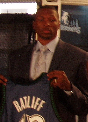 Theo Ratliff during a press conference announcing his trade to the Minnesota Timberwolves in August 2007.